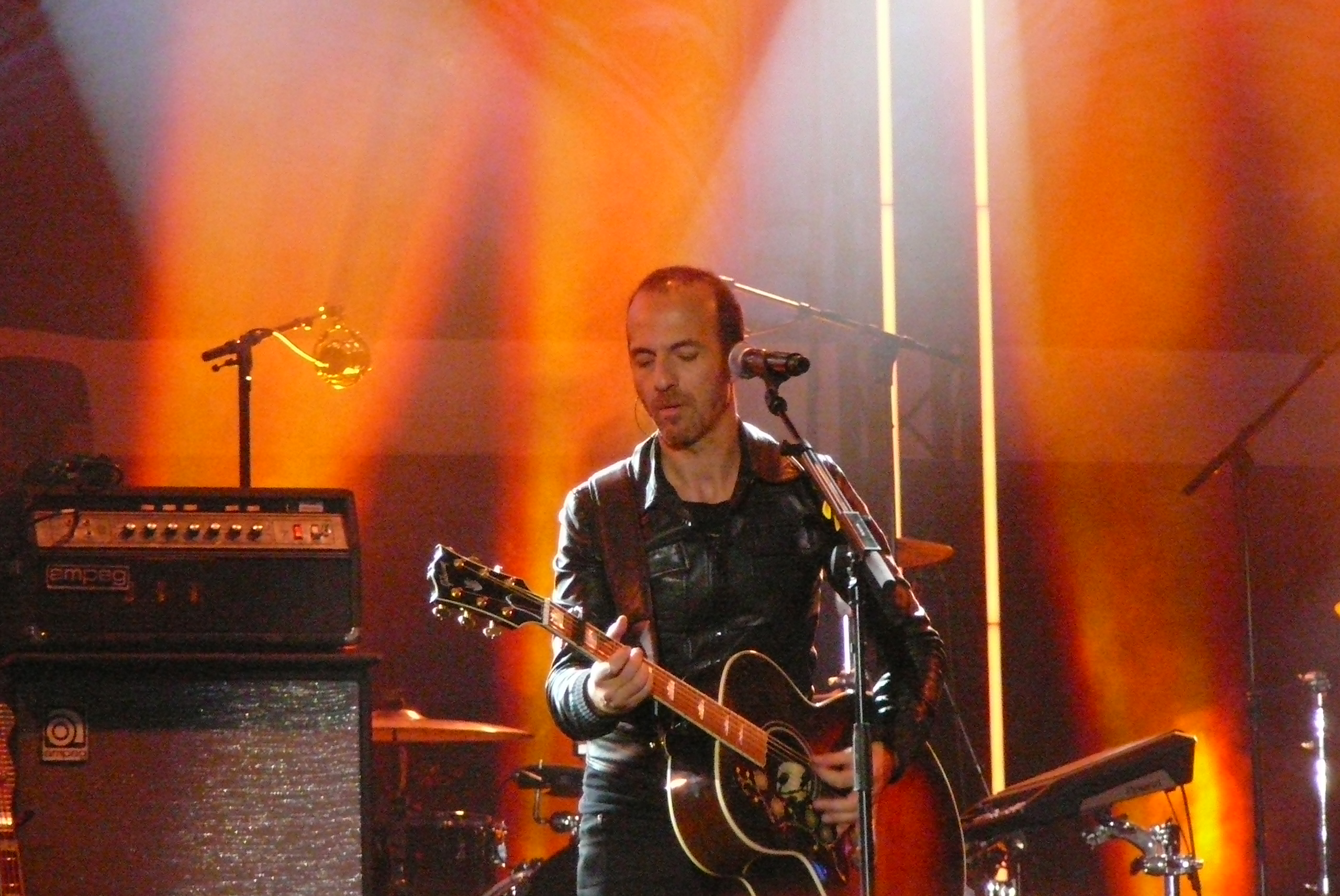 Singer Calogero on stage on the Grand-Place in Brussels (Belgium), on September 26, 2014, for the Feast Day of the French Community.